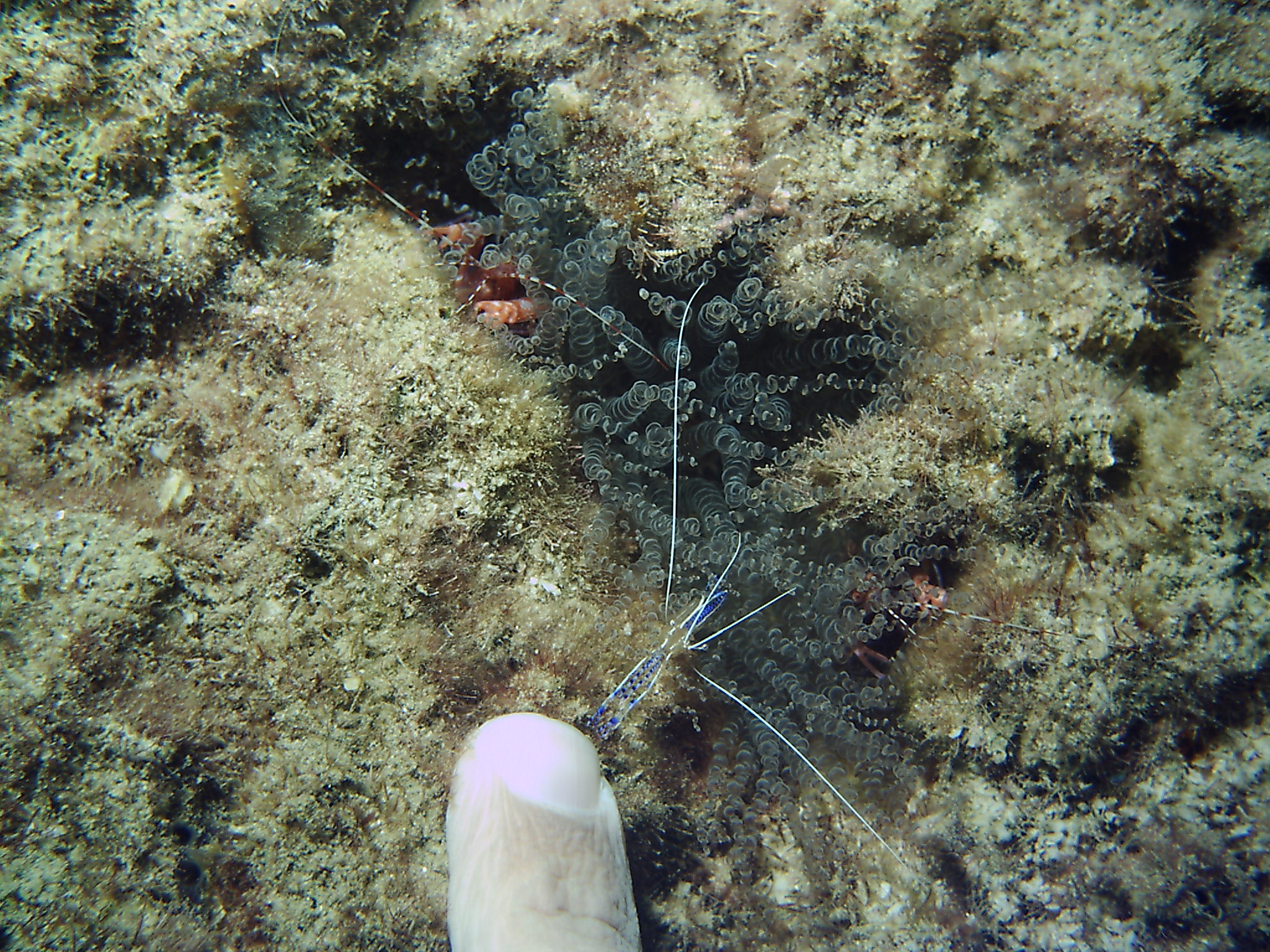 Camarón. Periclimenes pedersoni with the Sea anemone (Bartholomea sp.) and two Snapping shrimps (Alpheidae). Feb-2004. Parque Nacional Morrocoy. Tucacas. Venezuela